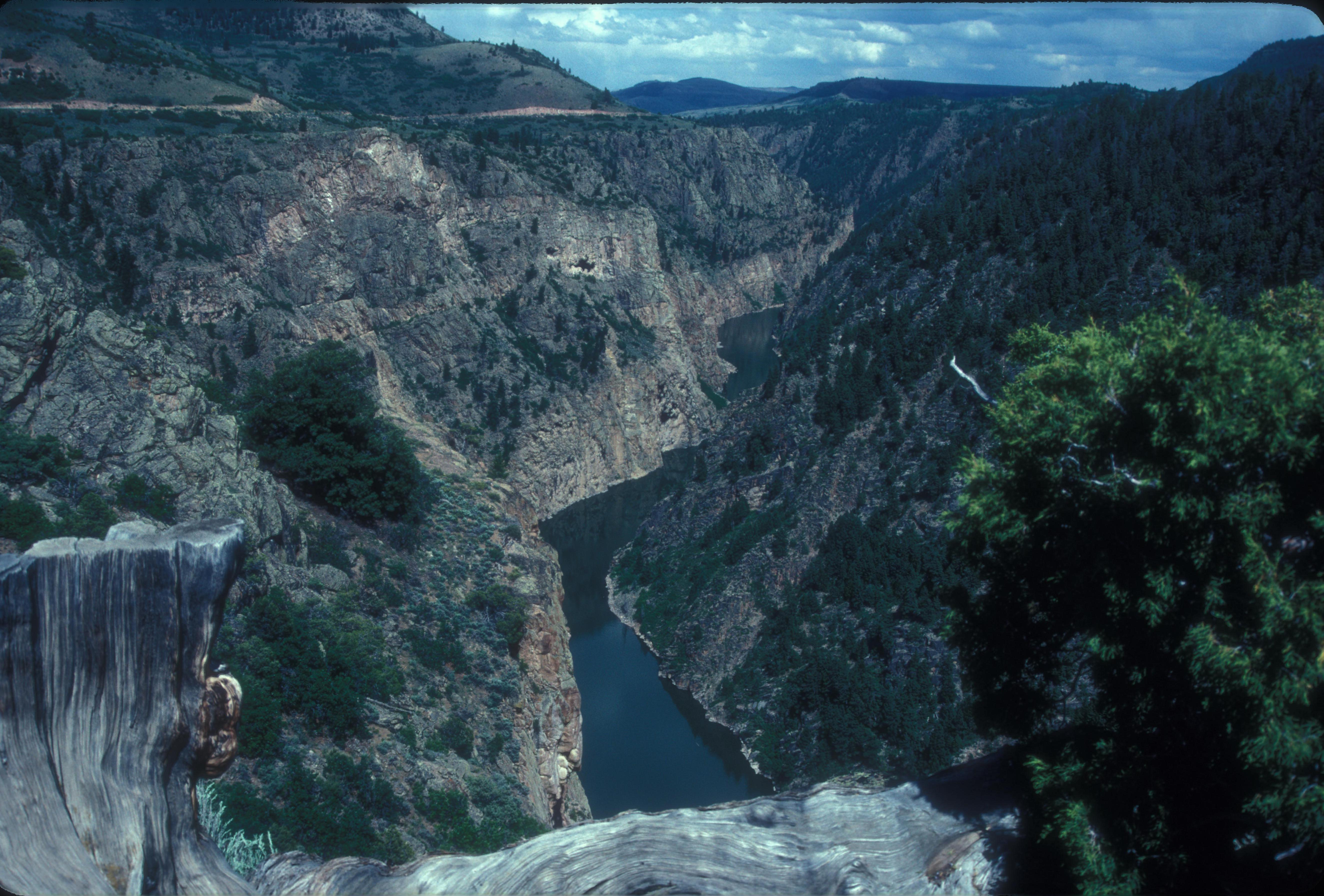 PIONEER POINT OVERLOOK OF THE UPPER REACHES OF MORROW POINT LAKE